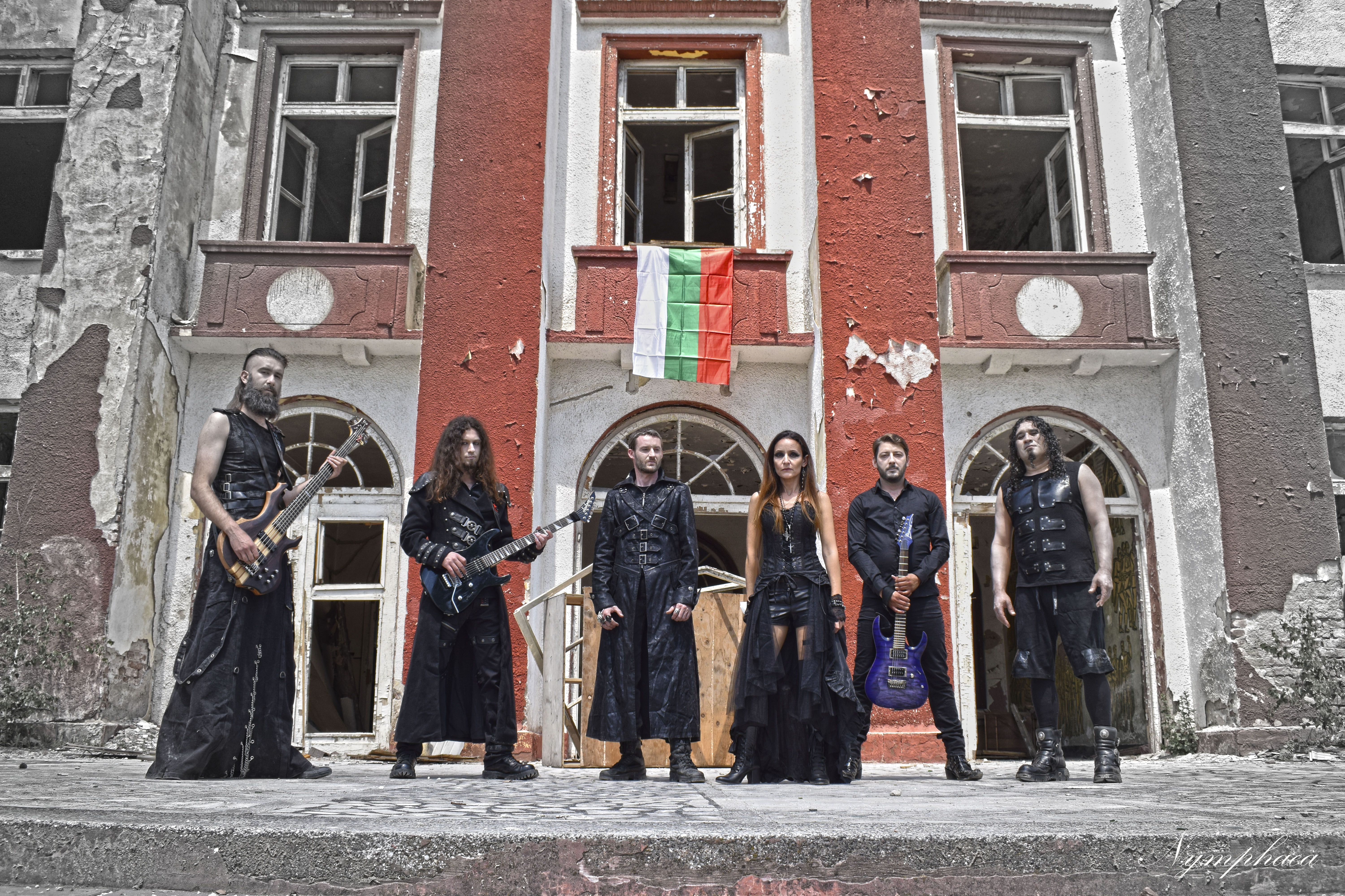 Metalwings in 2018